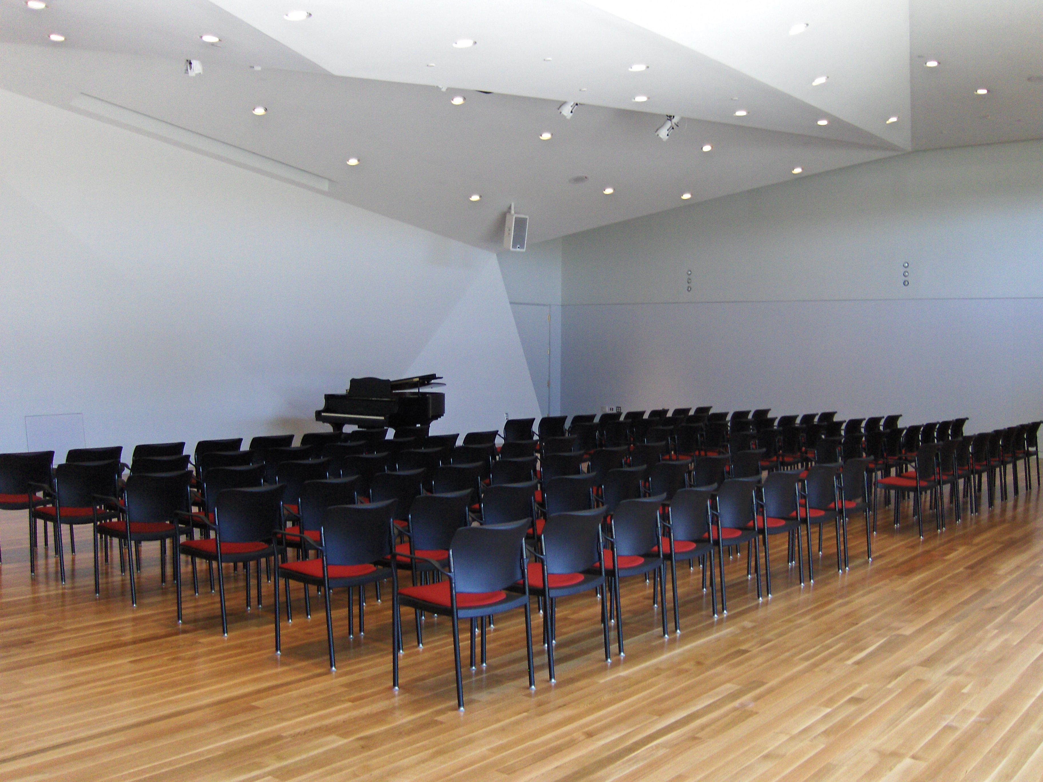 the pavilion, empty.